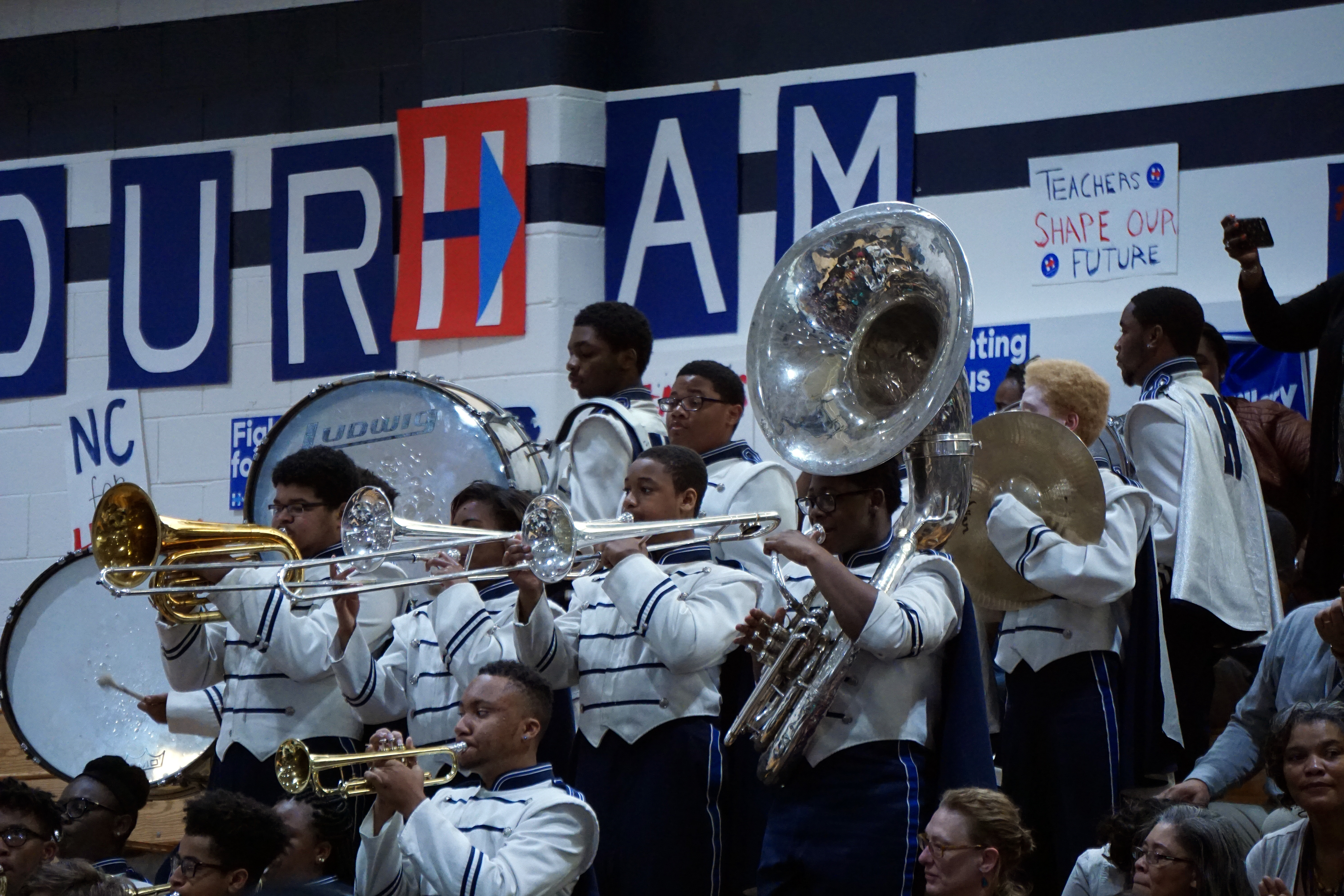 Campaign rally at Hillside High School in Durham, North Carolina